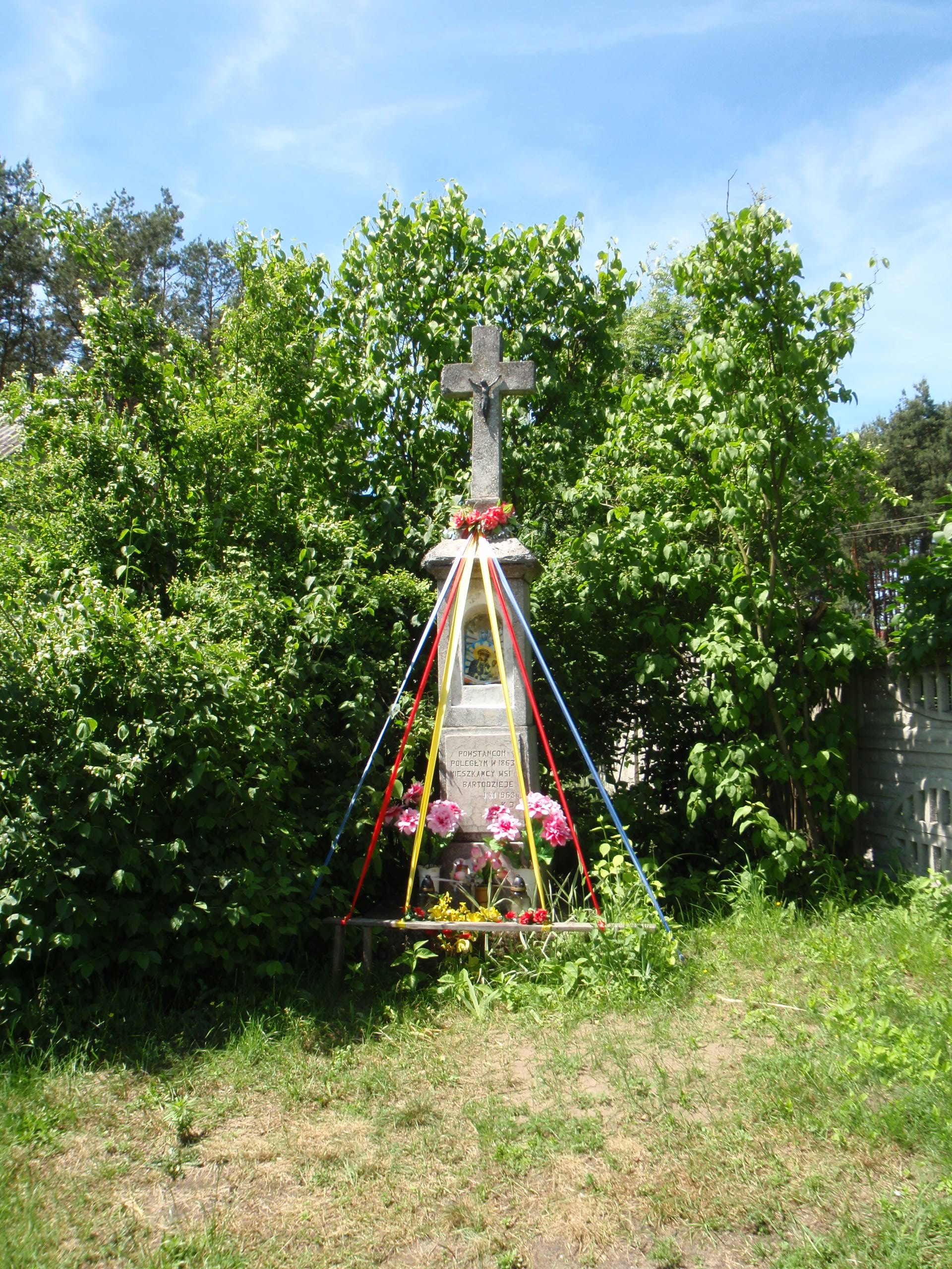 Bartodzieje, Radom county - monument of January Uprising